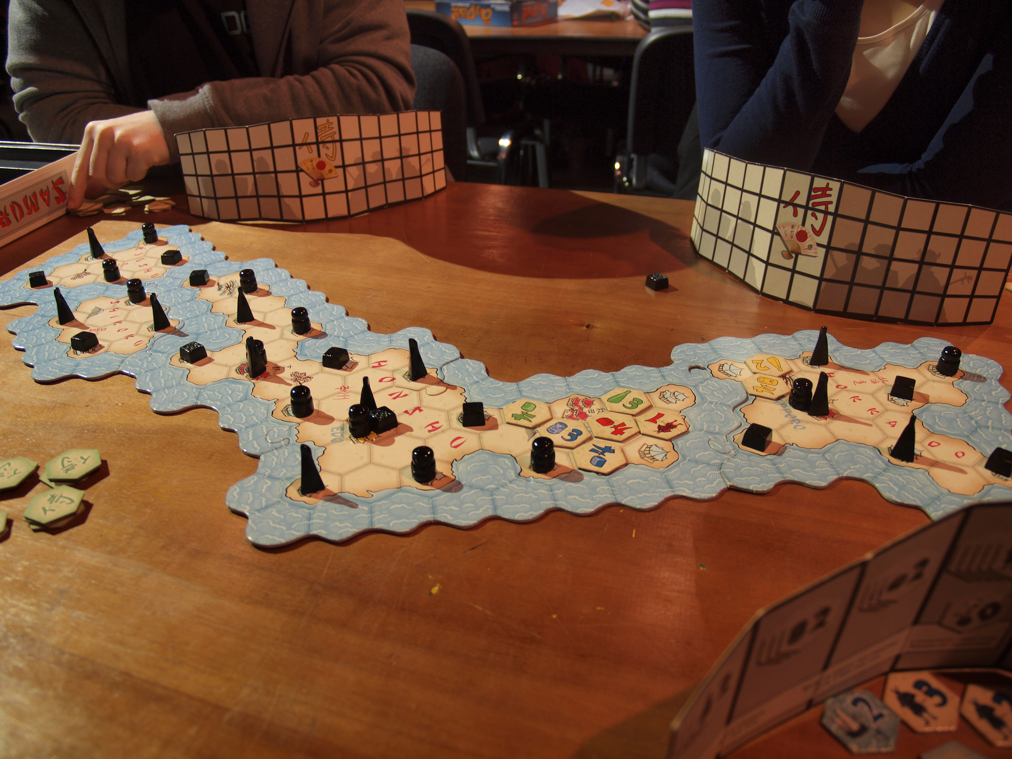 A game of Samurai, a strategic board game based upon territorial expansion, themed after the ancient Japanese samurai culture, being played at the annual Finnish tabletop board game day in central Helsinki, Finland.